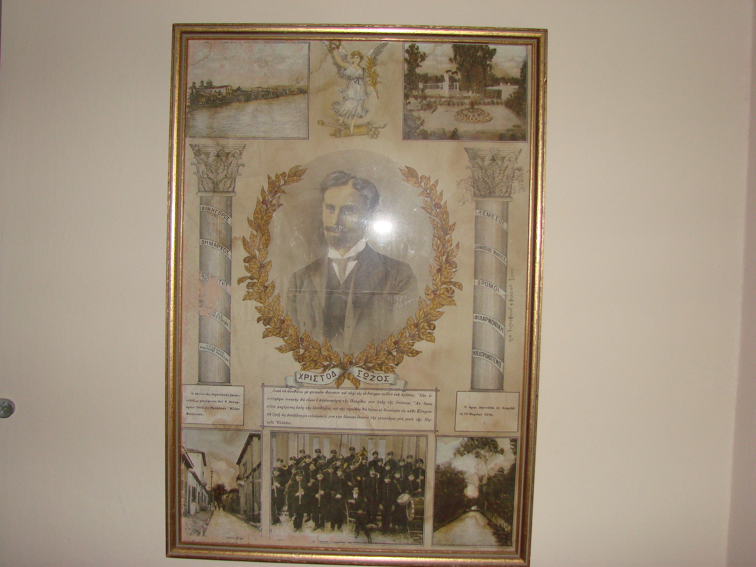 Poster honoring Christodoulos Sozos, Patticheion Museum, Limassol.